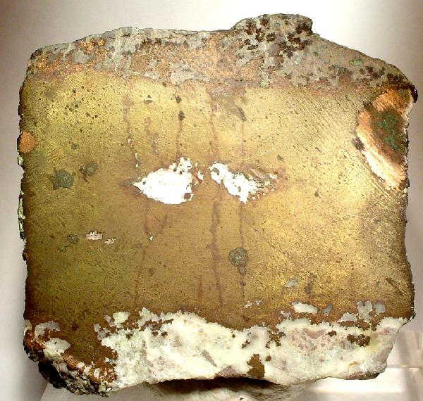 Domeykite, Copper, Quartz Locality: Mohawk Mine, Mohawk, Keweenaw County, Michigan, USA (Locality at ) A classic, sliced ore specimen of a vein of massive, brass-colored domeykite in quartz with copper. Domeykite is a copper arsenide and this is a fine, rich representative piece from the famous Mohawk Mine of Michigan. Ex Richard Hauck Collection. This small cabinet weighs over 1 and 1/2 pounds or 688 grams! 6.7 x 6.4 x 4.0 cm